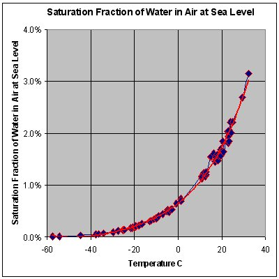 Graph of atmospheric dewpoints across a range of temperatures. It was created on August 1, 2004 based on data from the NOAA weather balloon sounding database.